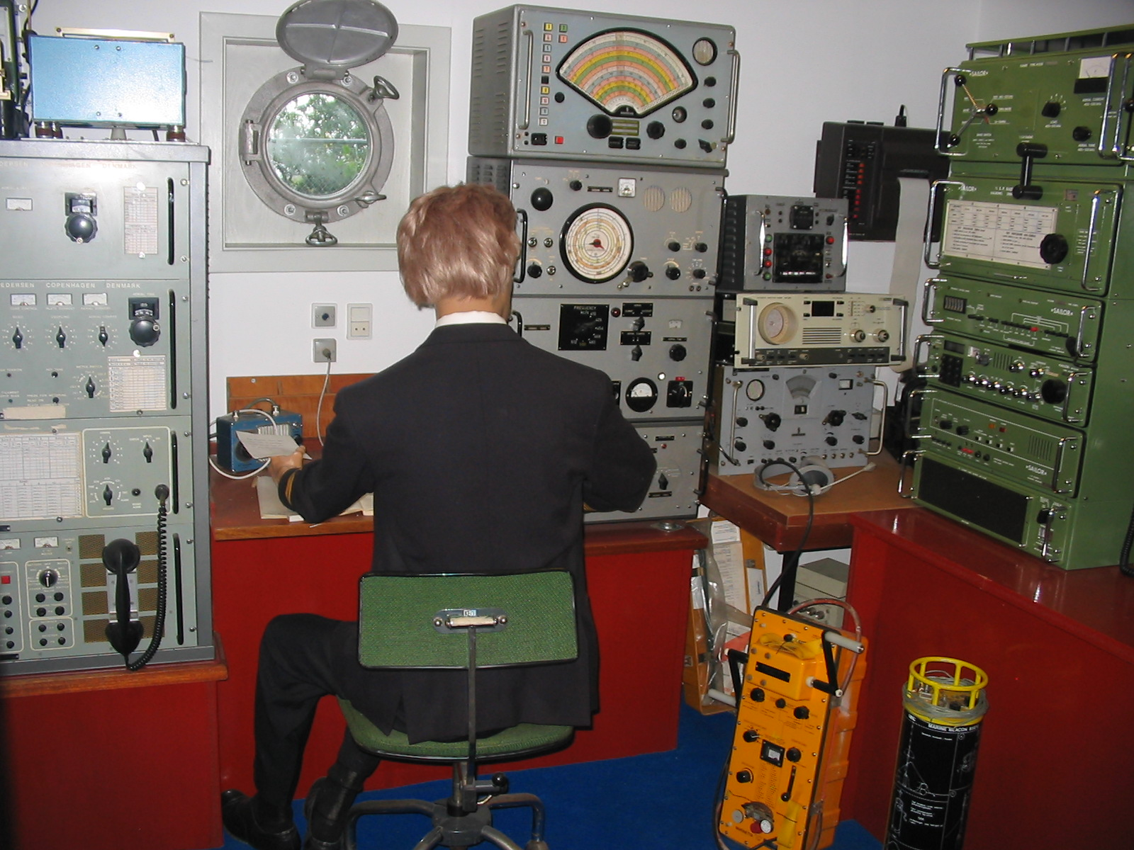 Control room / Picture taken in Aalborg Maritime Museum, Denmark